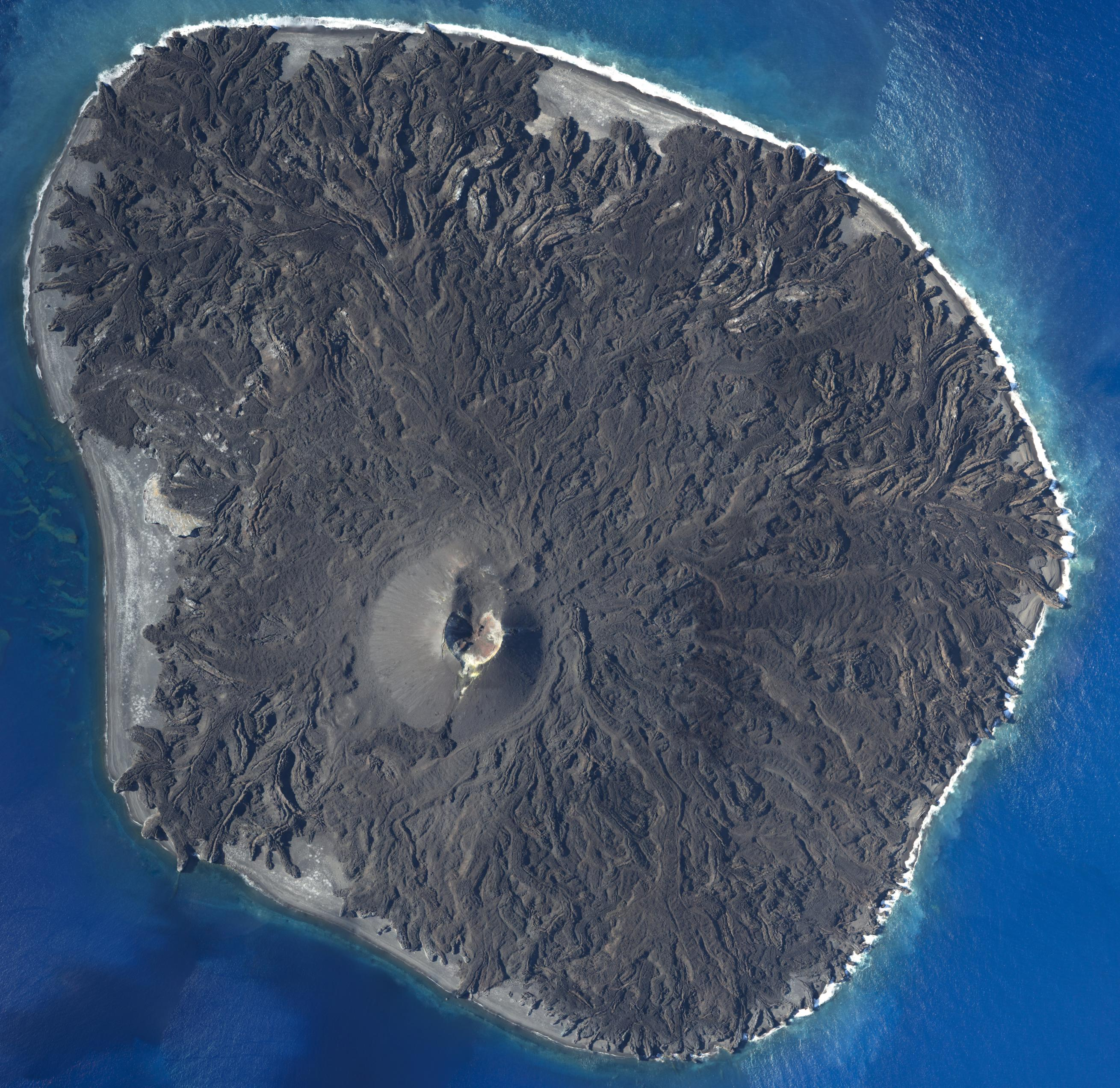 Nishinoshima in July 2016. The 2013-2015 eruption has almost completely covered the original island in lava. Only a small part on the western side remains unburied.